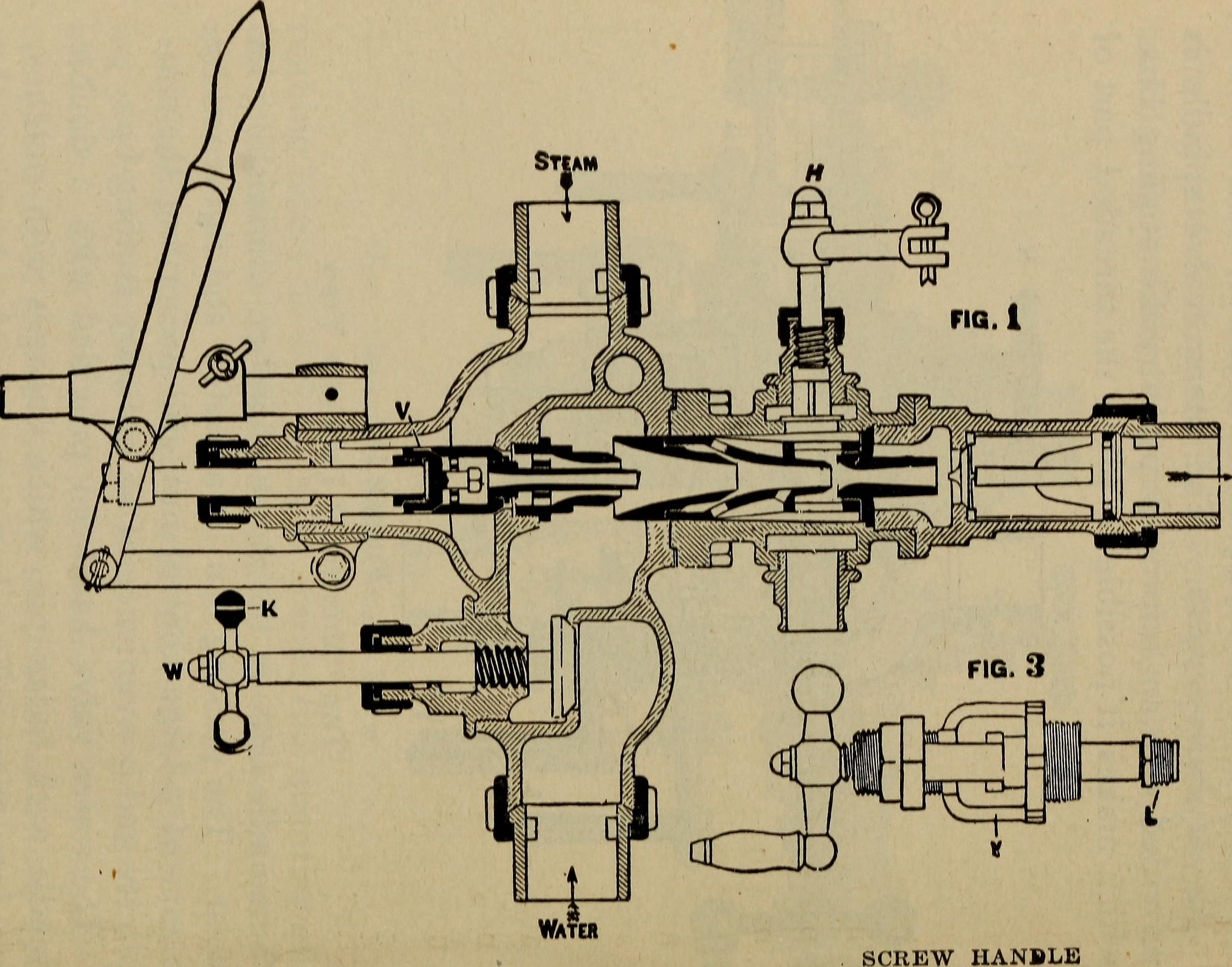 Title: Cyclopedia of locomotive engineering, with examination questions and answers; a practical manual on the construction care and management of modern locomotives Year: 1916 (1910s) Authors: Swingle, Calvin Franklin, 1846- (from old catalog) Subjects: Locomotives Publisher: Chicago, F. J. Drake & co., pub. for Sears, Roebuck & co. Text Appearing Before Image: Figure 167The Monitor, Interior View the spindle outside the steam chamber, diminishing itswear. The packing can be adjusted and tightened bymeans of a large central nut, still preserving the sim-plicity and convenience of an ordinary stuffing box. The water valve has been provided with a doublehandle wJth index pin, which engages with notches,cut into the stuffing box cap, thereby keeping thewater valve steady in any position against any jar orvibration of the engine. 3& LOCOMOTIVE ENGINEERING •nio.i 01 Text Appearing After Image: INJECTORS, STEAM GAUGES, ETC. 367 Description of 88 Monitor, Fig. 168. This injector isa modification of the well-known locomotive injectorof that name, and is designed to supply the demand fora lever-handled injector, and embody in a new combina-tion all the best qualities of the former instrument. Themost prominent feature of the 88 Monitor is the facilitywith which it can be started and stopped by the newlever-handle attachment, or the single screw spindle mo-tion, whichever may be preferred. The quantity of waterwhich the new injector is capable of throwing, will com-mand attention, and the range of its capacity, running asit does from 100 per cent at maximum to less than 50per cent at minimum, makes it equally applicable to themoving of heavy or light trains, as the case may happen. It will lift the feed-water 5 ft. at 30 lbs. pressure, andat standard working pressure, to a height not likely toarise in ordinary locomotive practice. Its pipe connections are the same as the other M